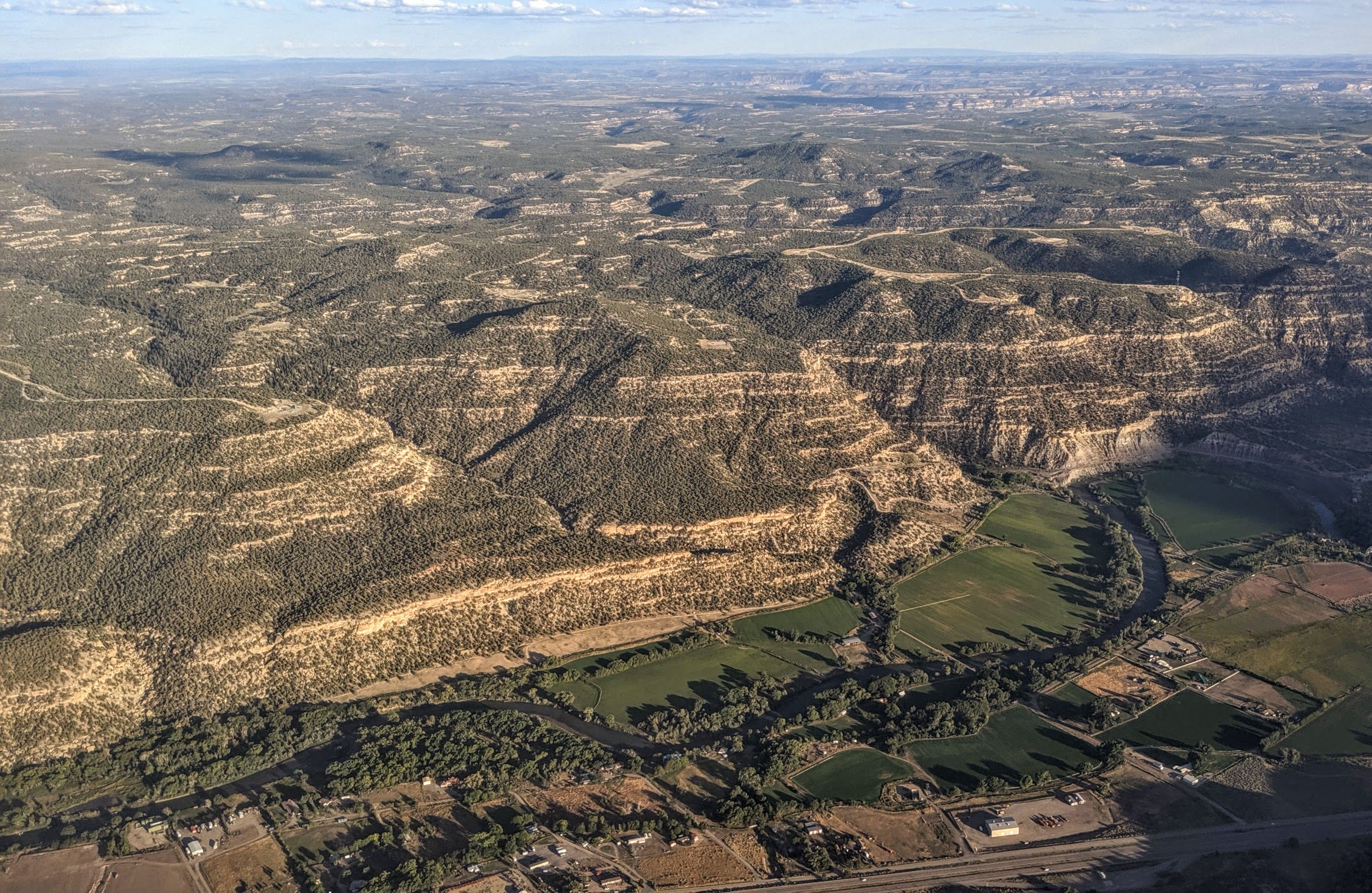 The Animas River between Cedar Hill, New Mexico, and the Colorado border; aerial view from the west on approach to Durango–La Plata County Airport